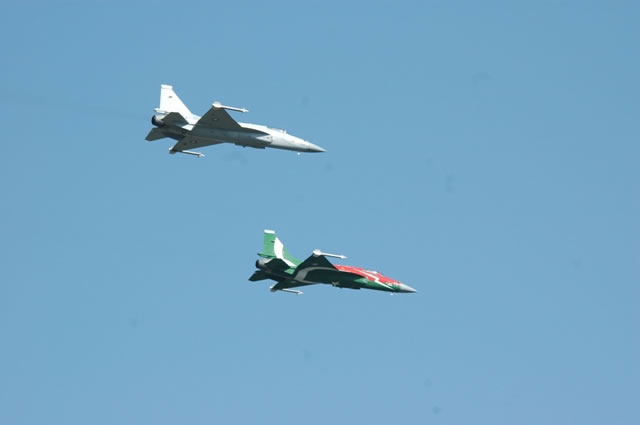 Pakistani JF-17 Thunders during fly past of National Day Joint Services Parade. I shot this picture myself.